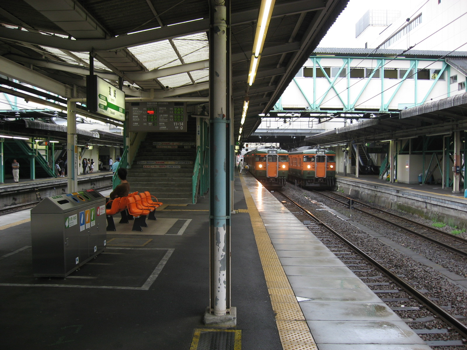 Platform of Takasaki Station